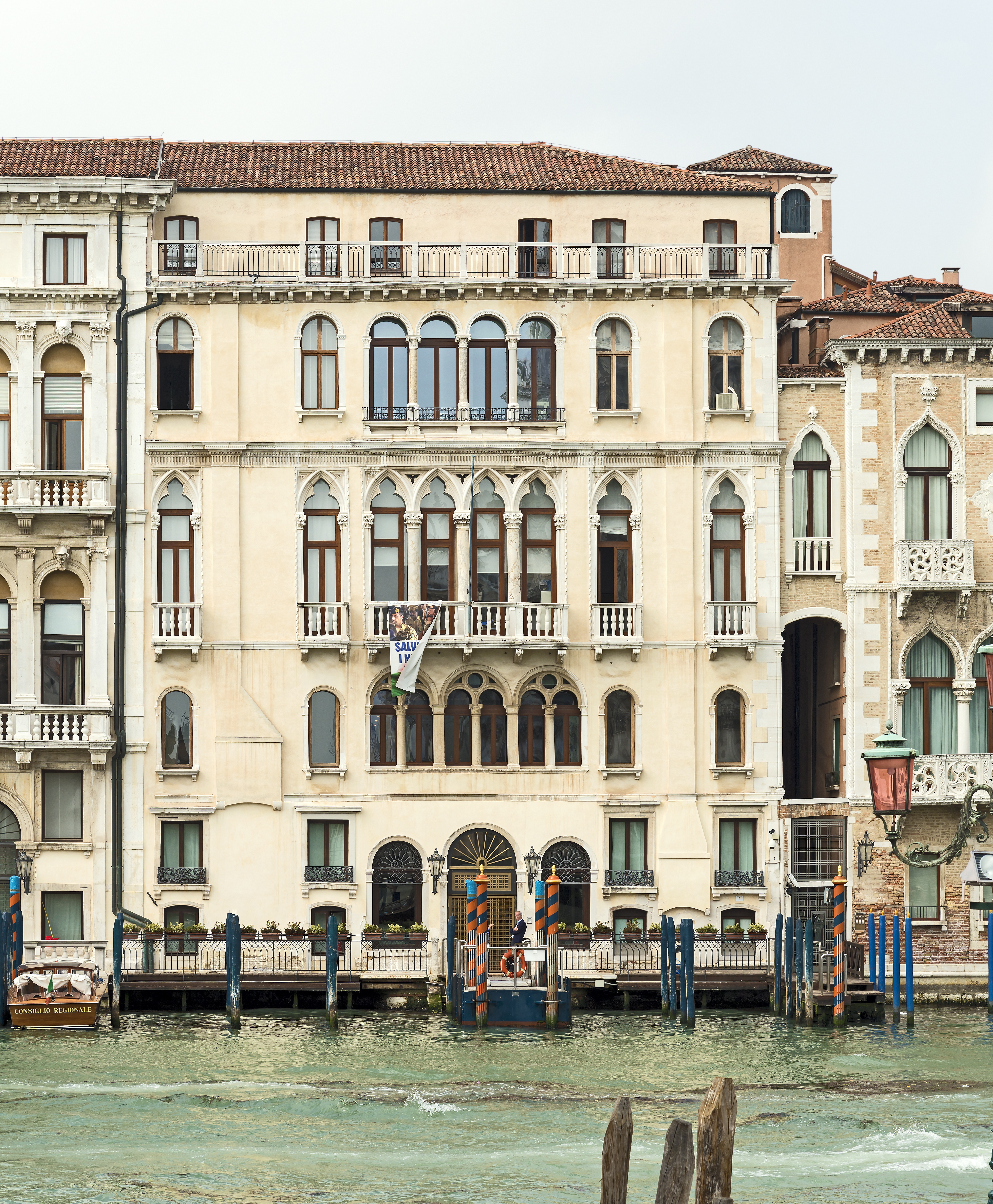 Ca' Morosini Ferro Manolesso Venice, facade on the Grand Canal.